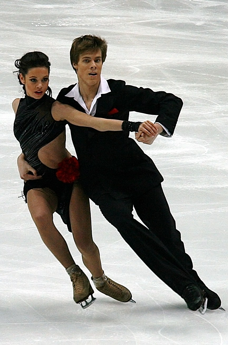 Elena Ilinykh and Nikita Katsalapov at the 2011 World Figure Skating Championships